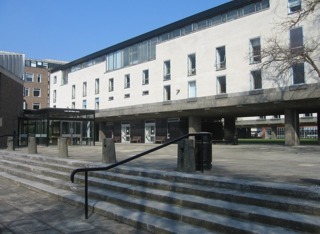 Raised Faculty Building - Sidgwick Site Home to the Faculty of Modern & Medieval Languages, Faculty of Philosophy, School of Arts and Humanities Research Area.